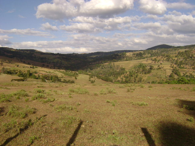 Deforestation of Cherangani hills, Kenya